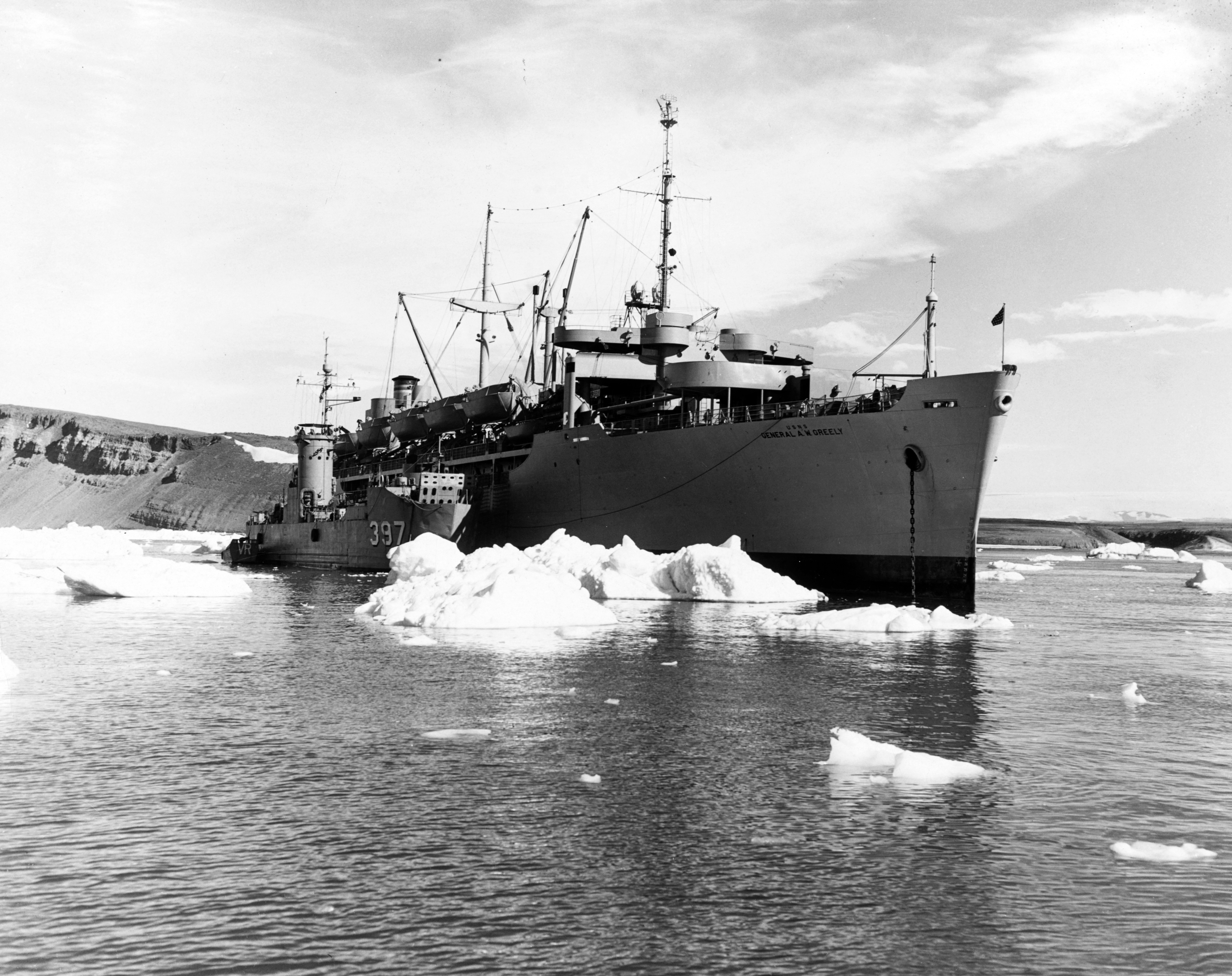 The U.S. Military Sea Transportation Service transport USNS General A. W. Greely (T-AP-141) amid the ice at Thule, Greenland, during "Operation Blue Jay", 19 July 1951. USS LSM-397 is alongside.